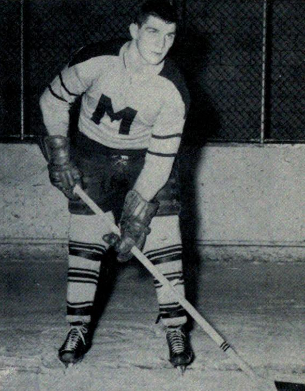 Tom Polanic, circa 1962